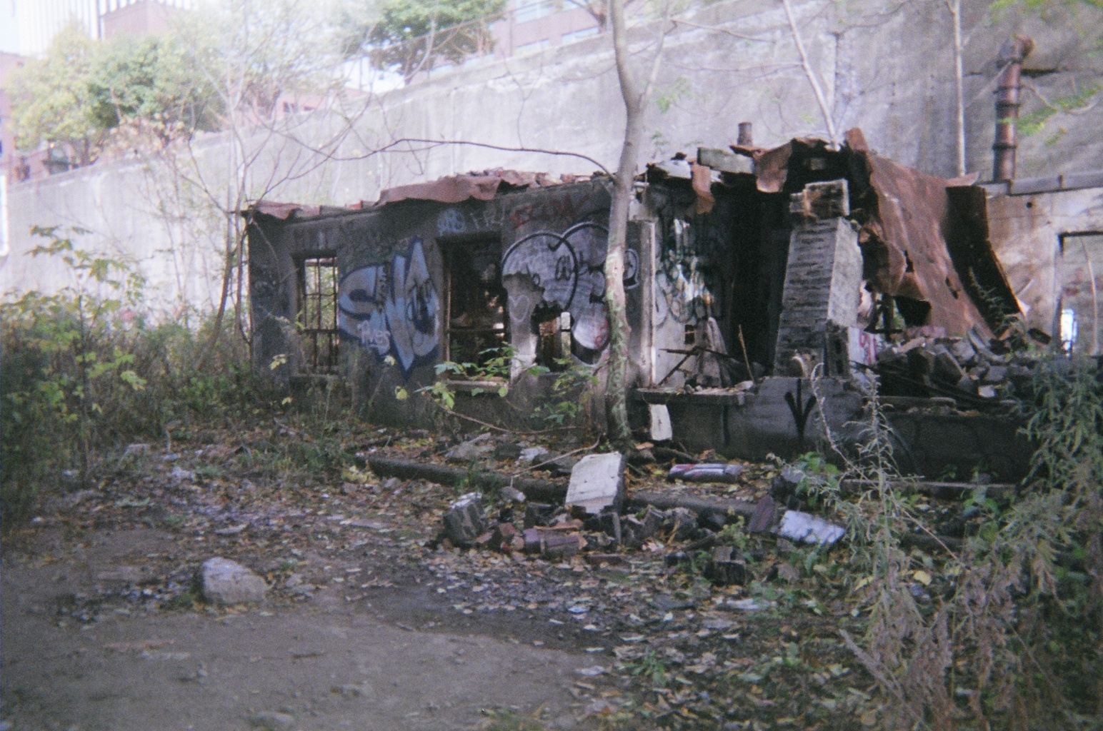 What remains of the Rochester Subway's Court St. Station